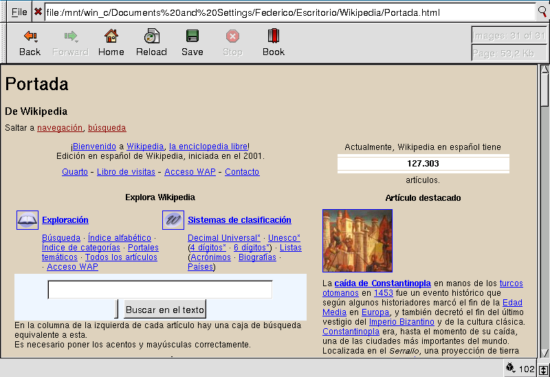 Dillo web browser version 0.8.6 showing the main page of the Spanish language Wikipedia. HTML document edited since this browser does not support UTF-8 by default.